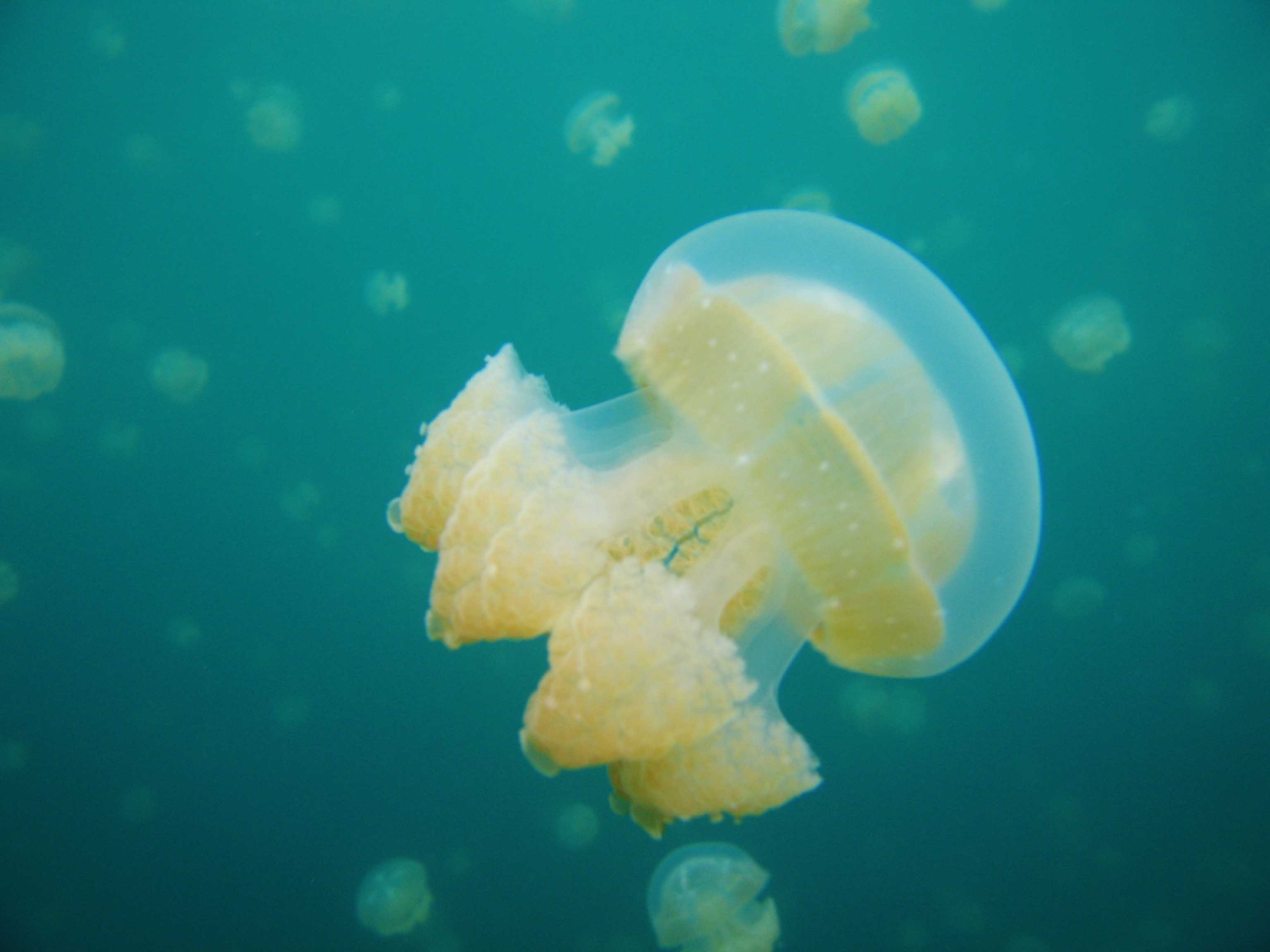 Catostylus species. Stingless jellyfish from Palau, Micronesia. Photo by Lee R. Berger.